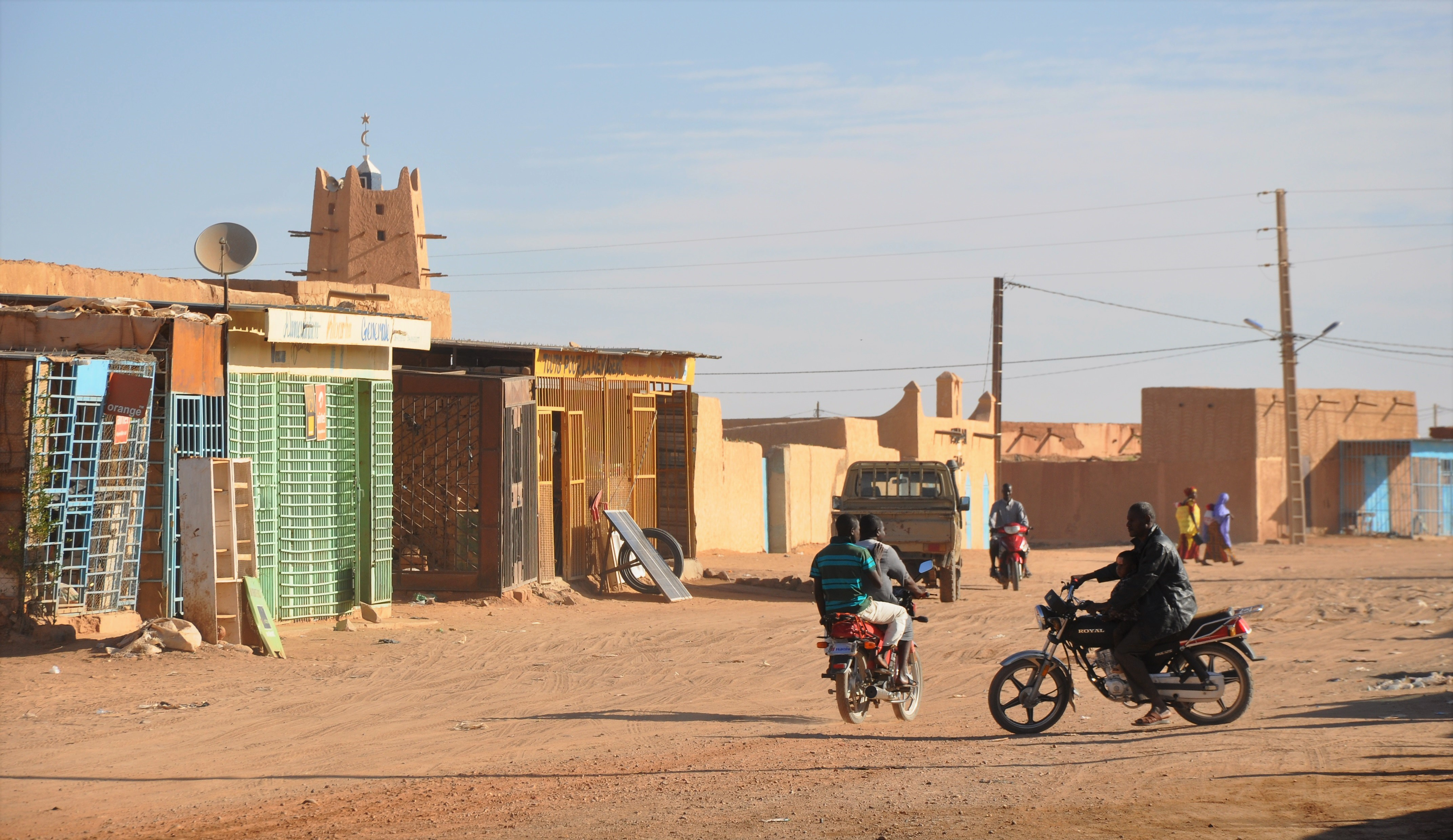 A street scene in Arlit, a large mining town in northern Niger